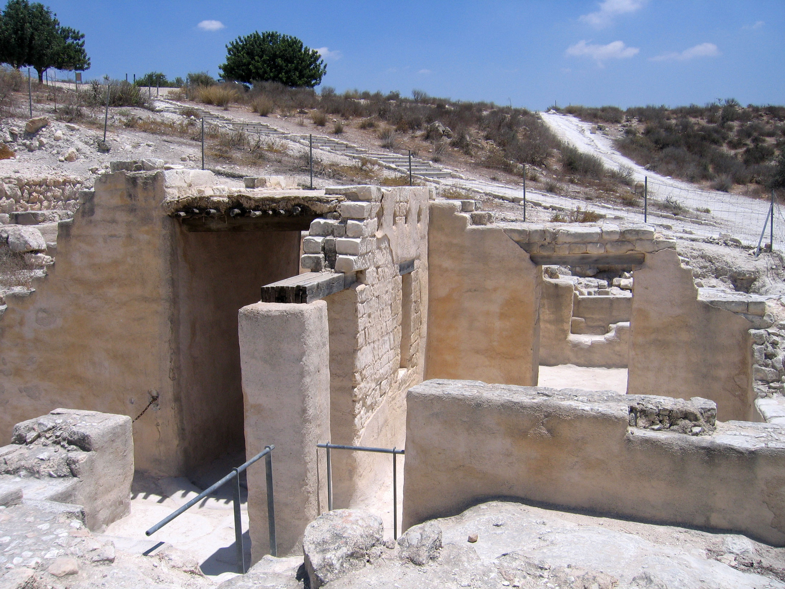 Maresha, Urban Section including residential and shopping areas dating to the 3rd-2rd centuries BCE. under the houses is quarried citerns for various purposes.